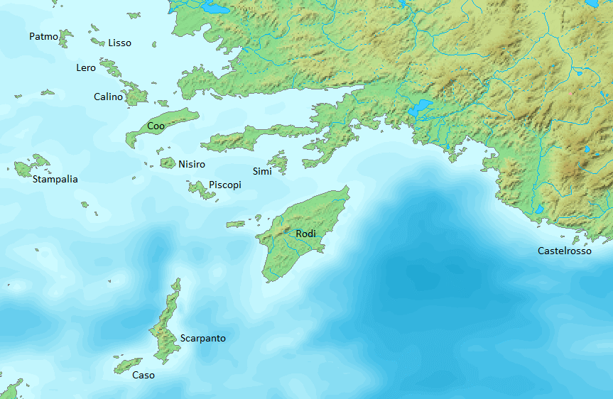 Italian version of Dodekanes.png